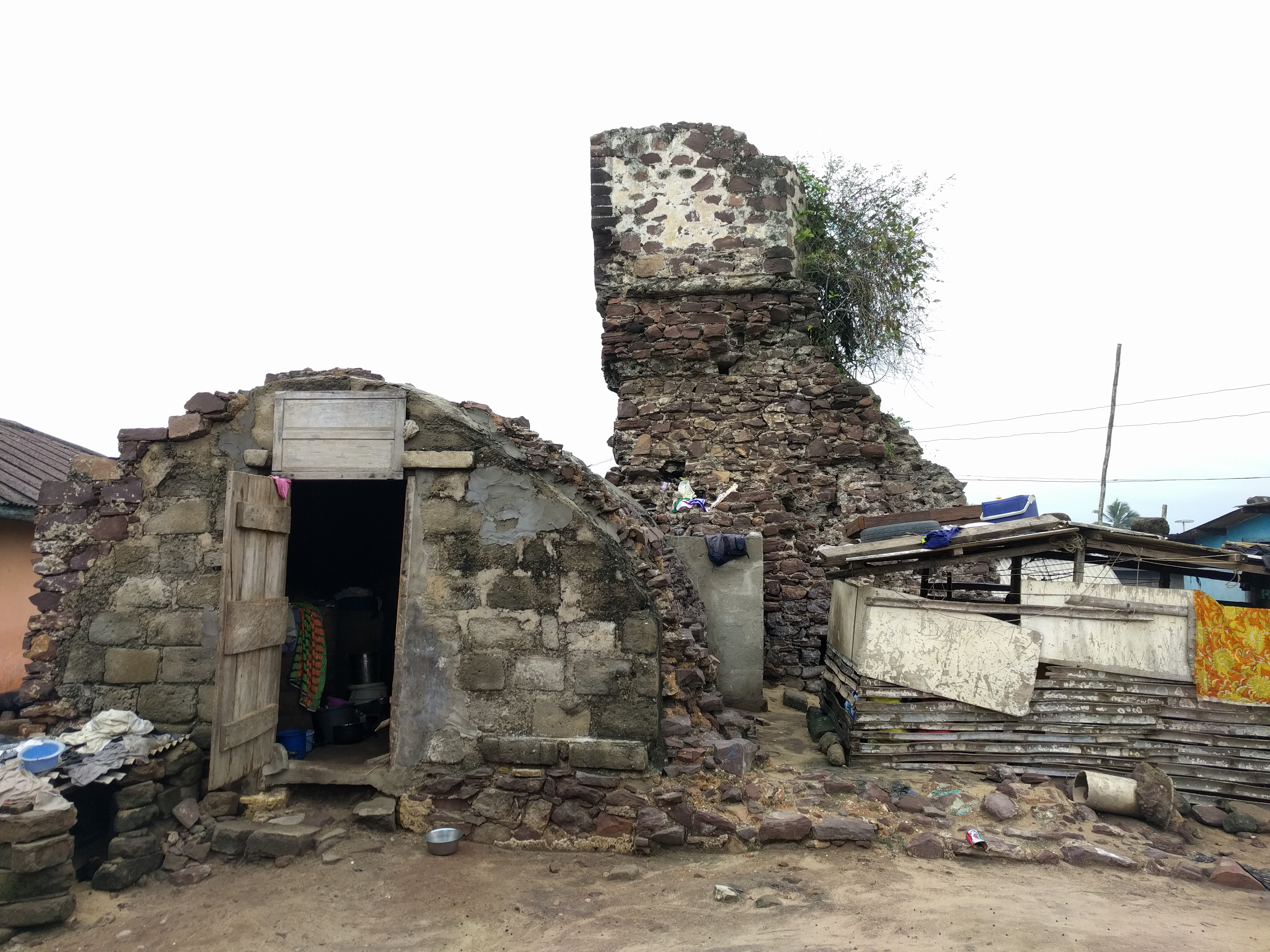 Fort Vredenburg was a fort built by the Dutch in 1682 in the part of Komenda, now known as Dutch Komenda. This picture shows the remains of the monument.